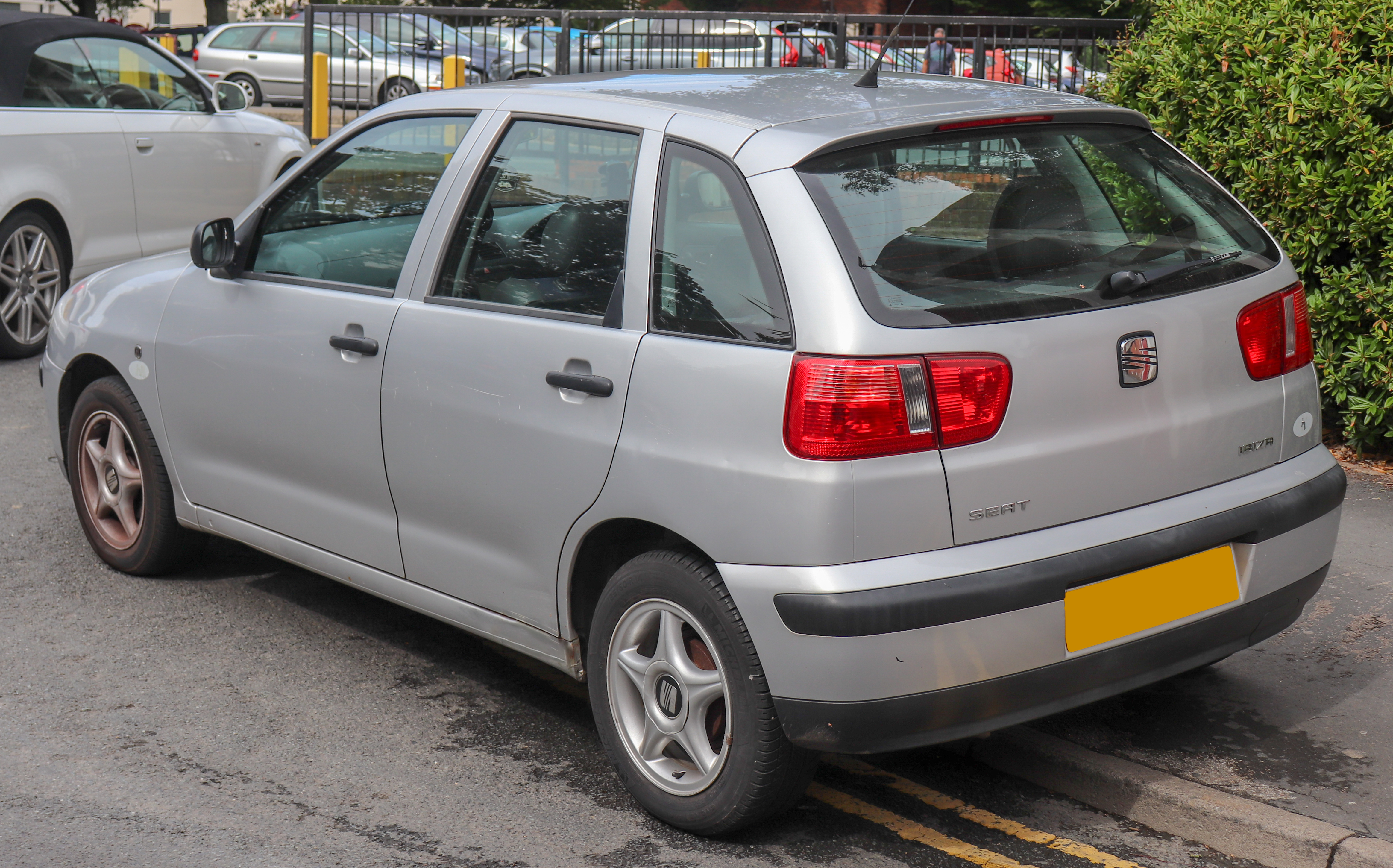 2001 SEAT Ibiza Chill 1.4 Rear Taken in Leamington Spa